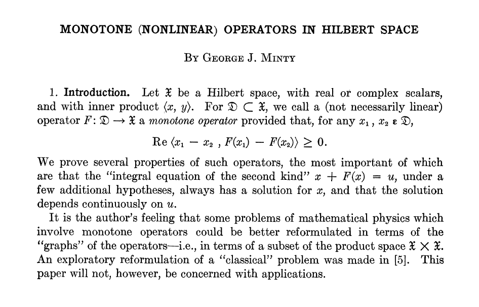 Scan of introduction of Minty's article from 1960